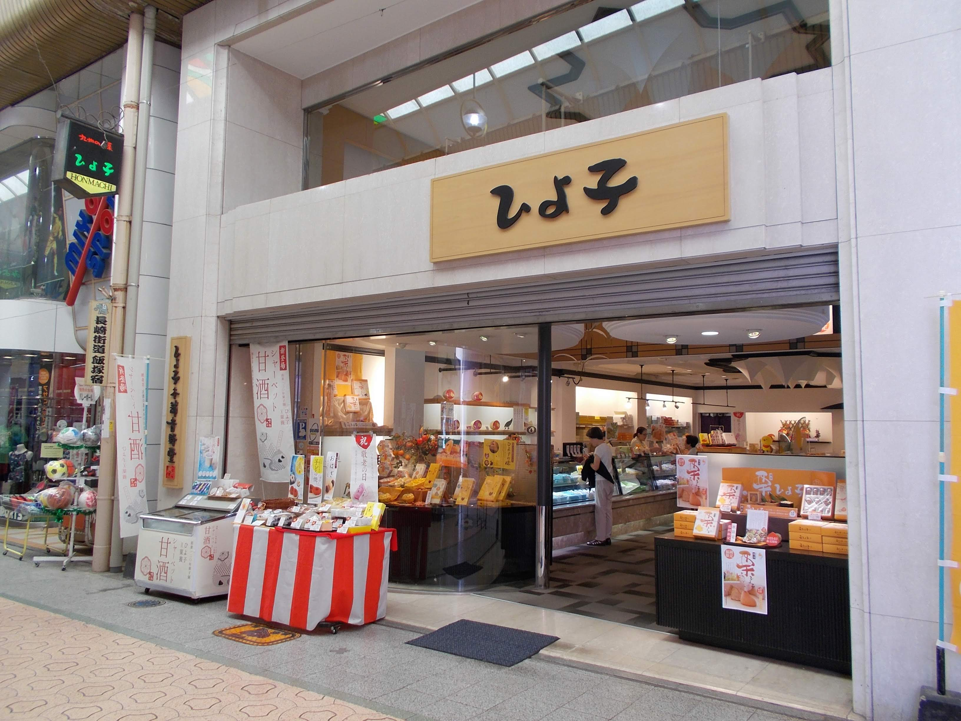 Hiyoko Iizuka shop (Iizuka, Fukuoka, Japan) which is the origin of the Hiyoko/Yoshinodo Confectionery shop by Naokichi Ishizaka, the founder of the company, in 1897.